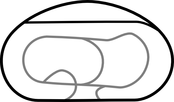 Layout of Ovalo de Chiapas in Berriozabal